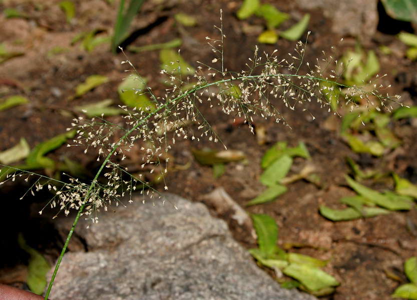 Eragrostis amabilis (L.) Wight & Arn. ex Nees (syn. Eragrostis tenella Benth., Eragrostis elegans Nees, and Eragrostis interrupta (Lam.) Döll)- at Deer Park in Shamirpet, Rangareddy district, Andhra Pradesh, India.